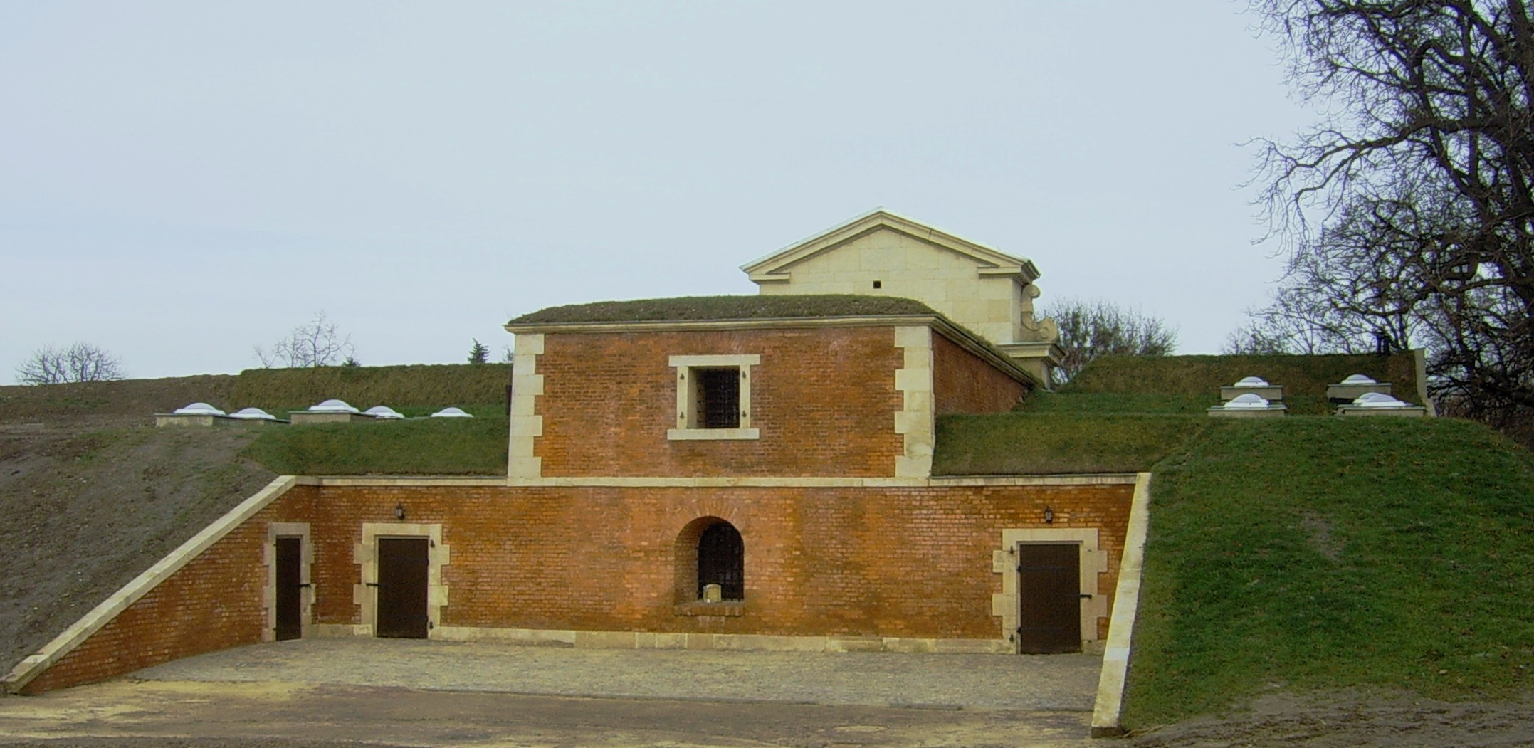 The Old Lublin Gate in Zamość